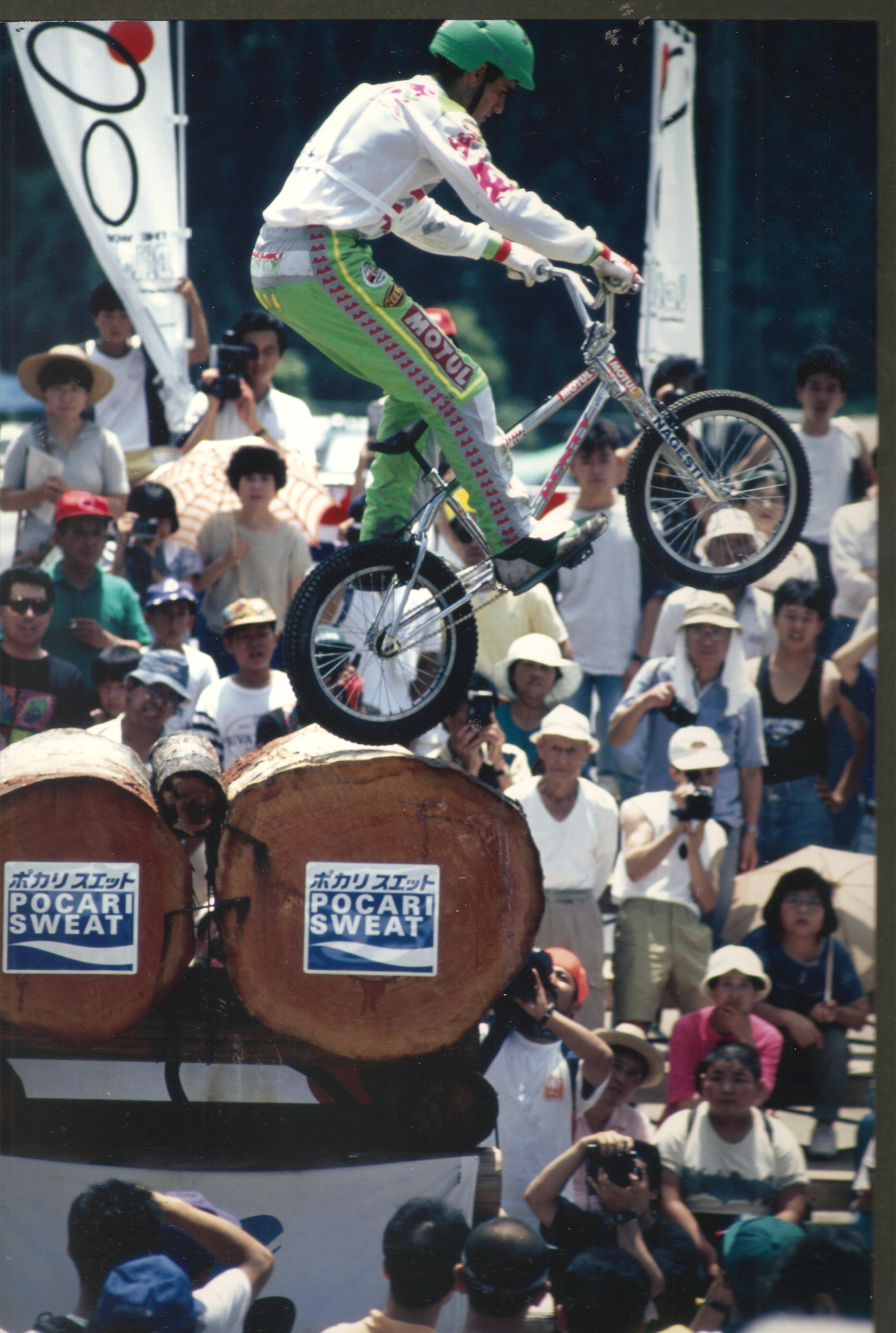 World Championship Japan